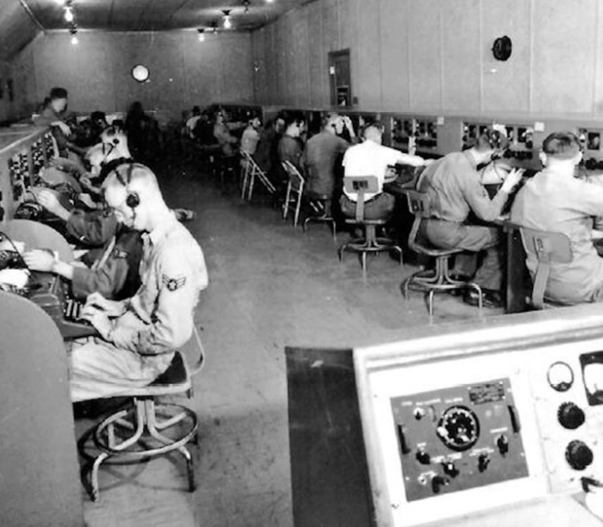 Control Center "Operations 6910th Security Wing" in Darmstadt